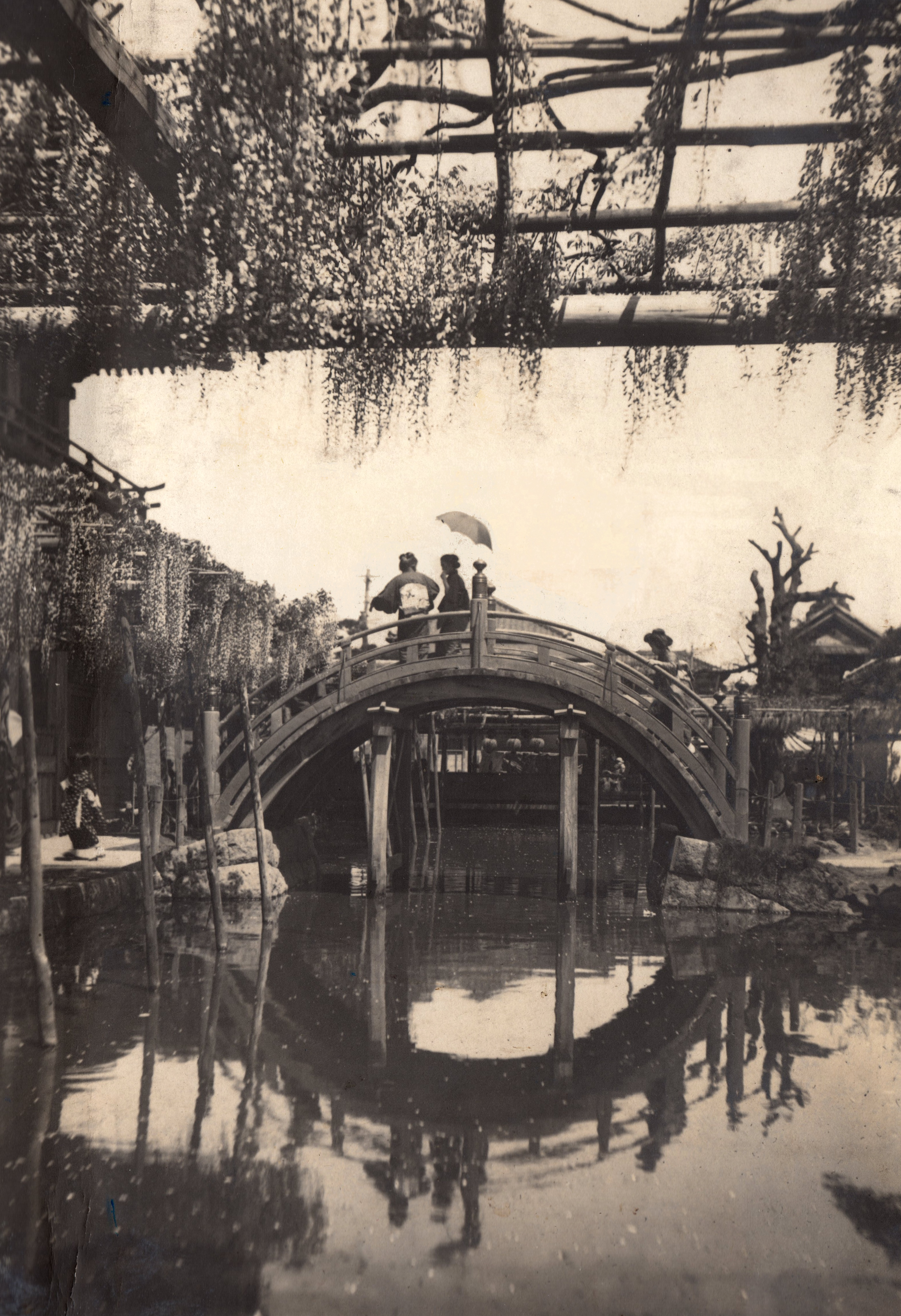 From the title page of an album of photographs taken in Japan between 1914 and 1918. My thanks to flickerite tokyogaz for identifying this arched bridge as belonging to the famous Kameido Tenjin Shrine in Tokyo. This was the largest of several bridges on the path to the principal structure of the Kameido Tenjin Shrine; the bridges linked islands in a like in front of the shrine. Built in 1662, the Kameido Tenjin Shrine was destroyed in the Allied firebombings of Tokyo in March, 1945. For more information about the shrine, including an outstanding collection of woodblock prints of the shrine and this bridge before their destruction, go to "Woodblock Prints of Kameido Tenjin Shrine" at Once there, you can follow a link to photographs of the rebuilt shrine, which now exists as an oasis "within the generally dull and uninspired architecture typical of Japan's post-War reconstruction." ("A Visit to Tokyo's Kameido Tenjin Shrine" ) Note: I have no connection to, or relationship with, the gallery that created the Web pages cited above. Image dimensions before cropping: 101mm x 147mm. Flickr Tags: japan wisteria vintage japanese photographs vintage photos of japan old japan Kameido Tenjin Shrine 日本 東京都 江東区 亀戸天神社 藤 太鼓橋 昔の日本 大浦事件 Taisho Era 亀戸天満宮.